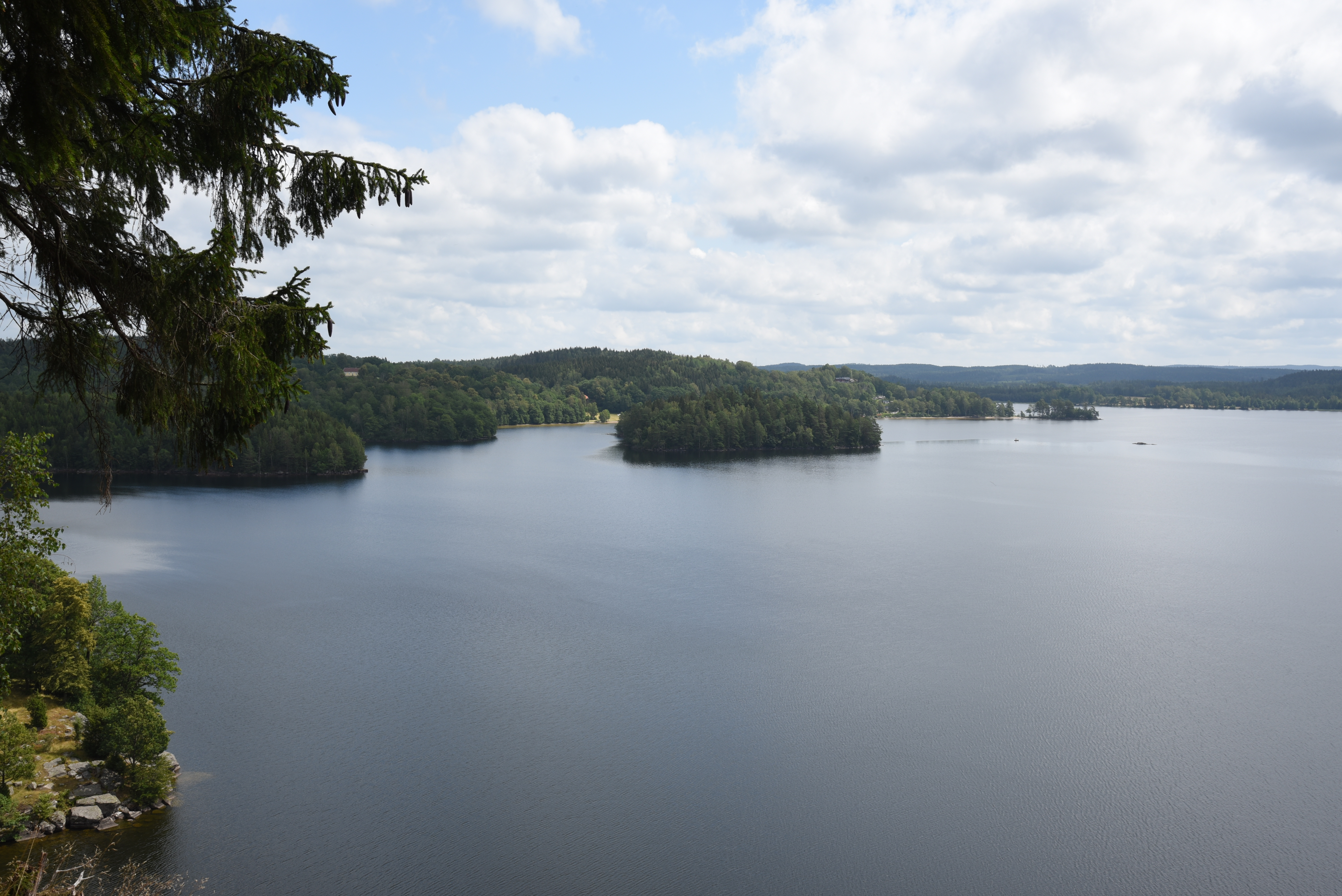 The lake Stora Hålsjön in Kinna Municipality in Sweden. View from Liagärdesberget in Liagärde nature reserve.